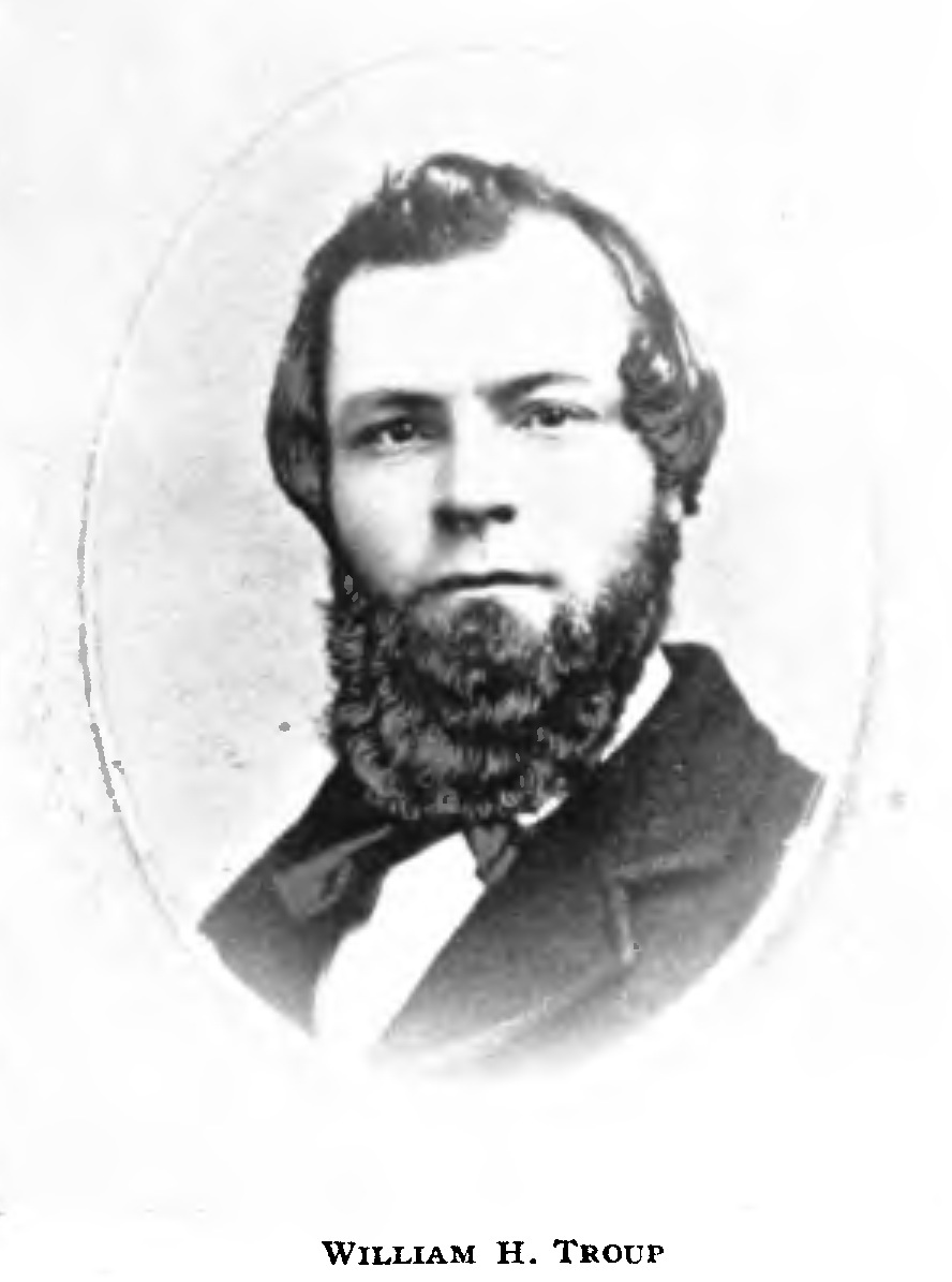 photograph of William H. Troup, steamboat captain